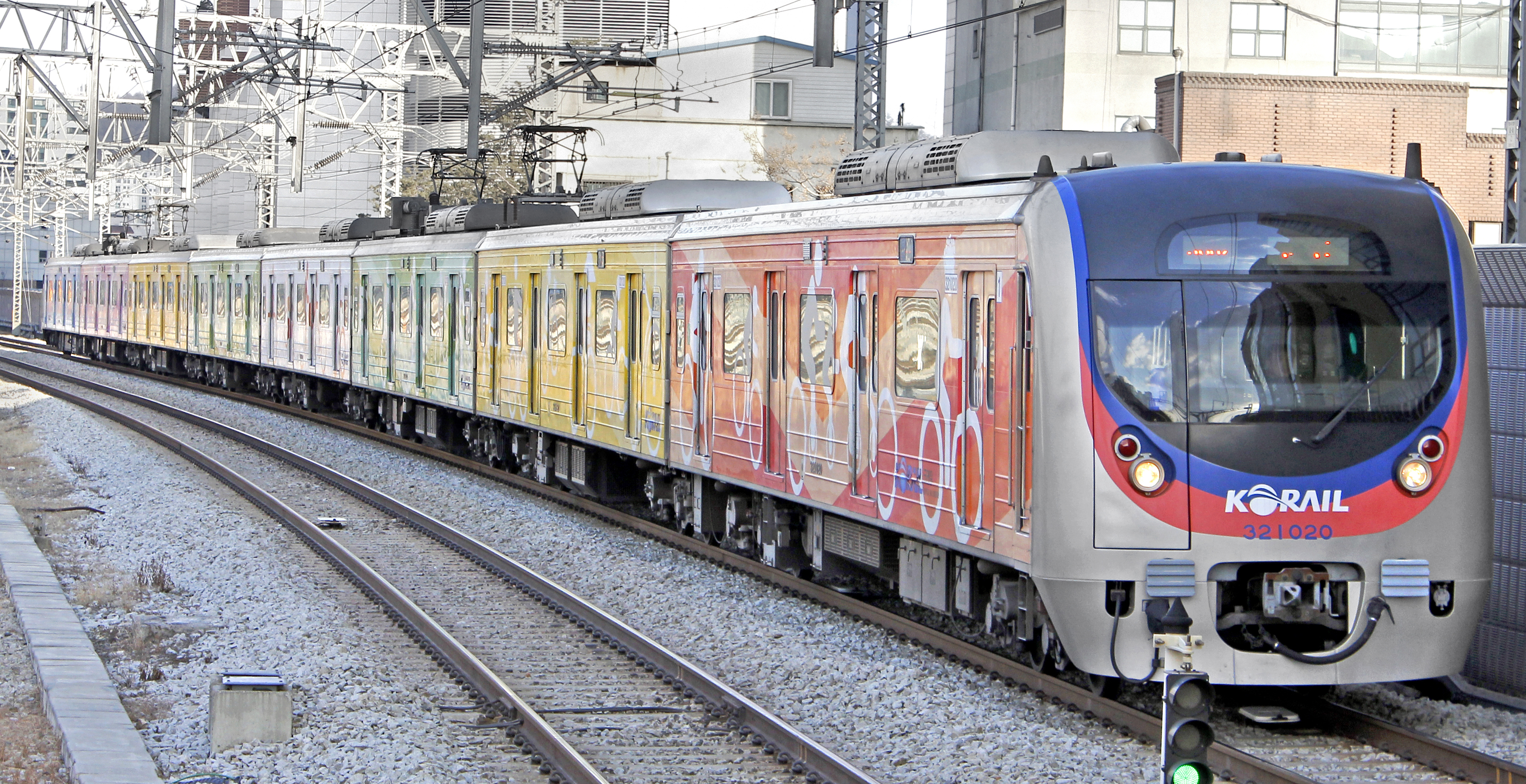 Korail EMU Class 321000 Bicycle Train (321X20)